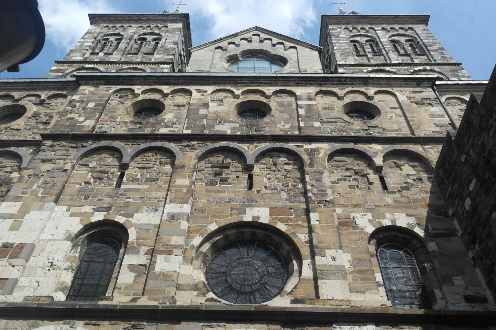 View of the the 12th-century Westwork of the Basilica of Saint Servatius in Maastricht, the Netherlands.